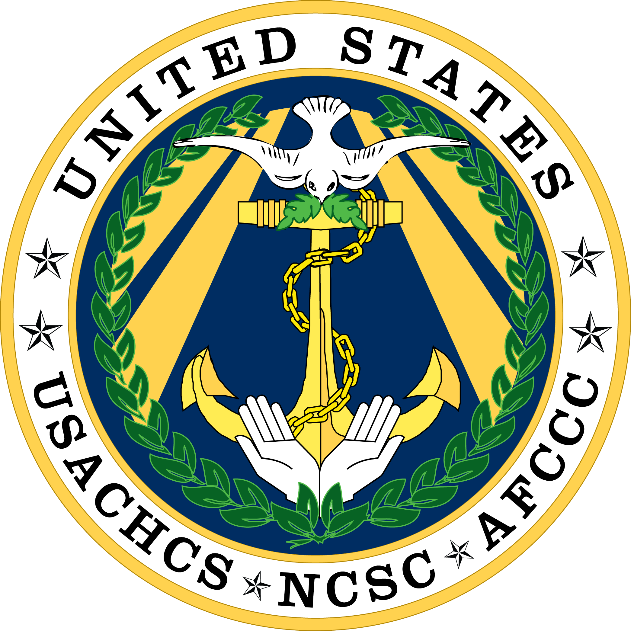 Side 2, Official emblem of the Armed Forces Chaplaincy Center, Fort Jackson, S. Carolina (The Army, Navy, and Air Force have Chaplain Schools co-located on this campus)